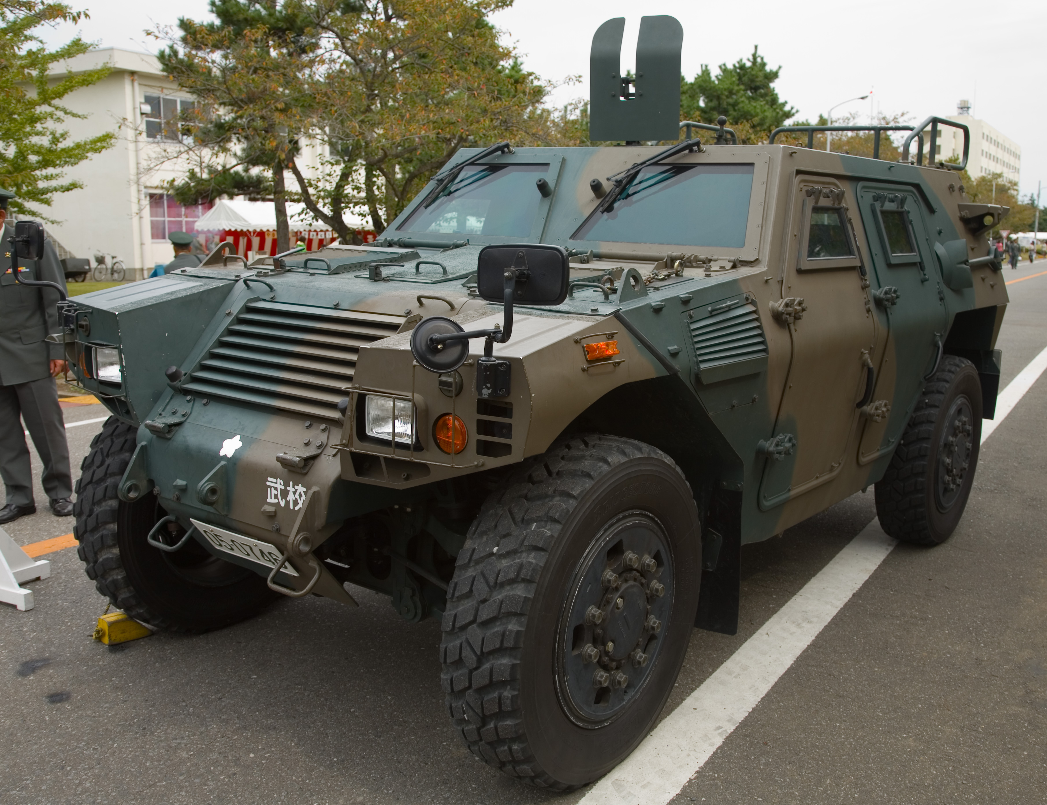 A Komatsu LAV on display at the JGSDF Ordnance School in Tsuchiura, Kanto, Japan.